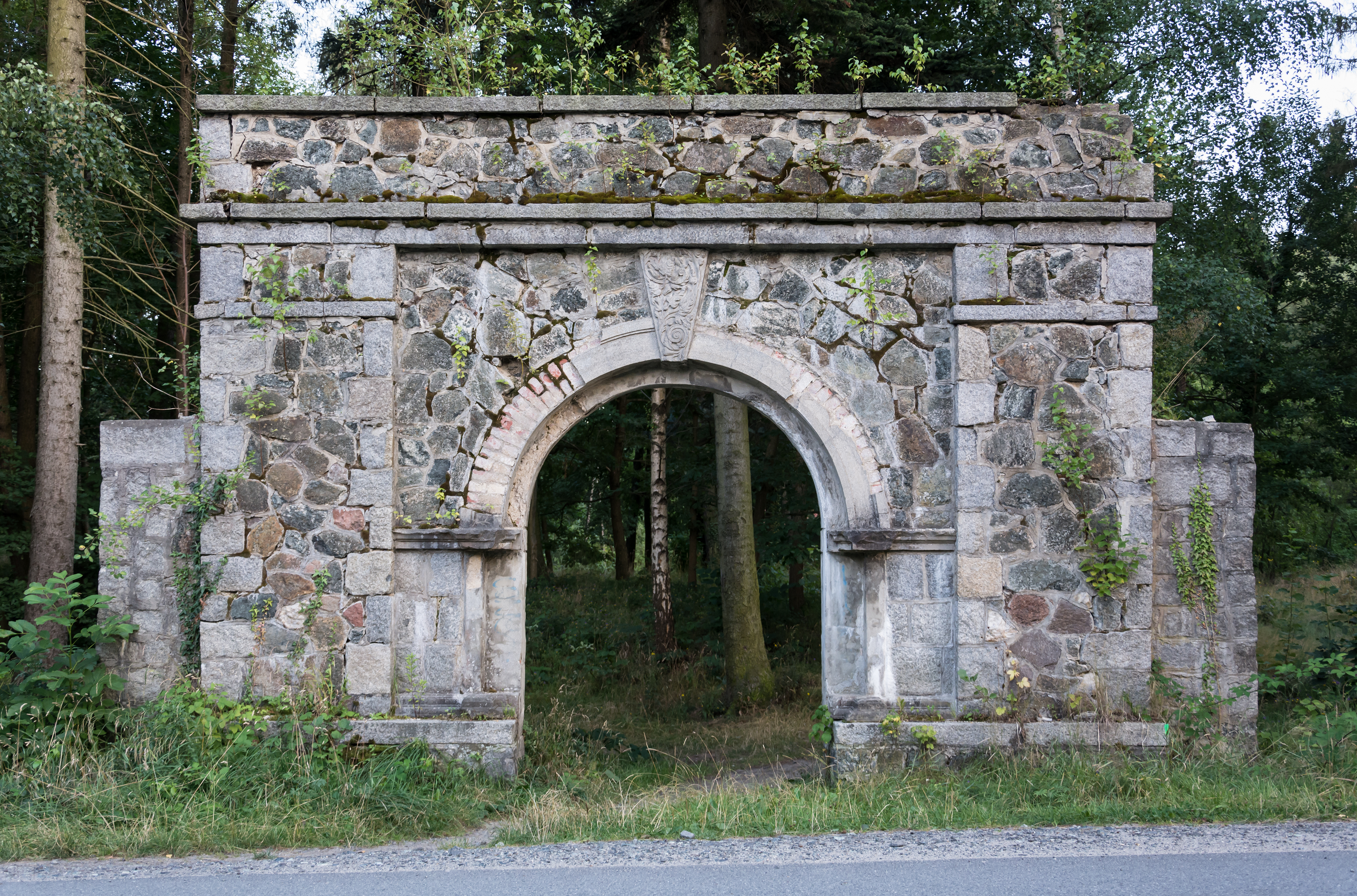 Landscape park Wenecja in Sulistrowiczki, upper gate